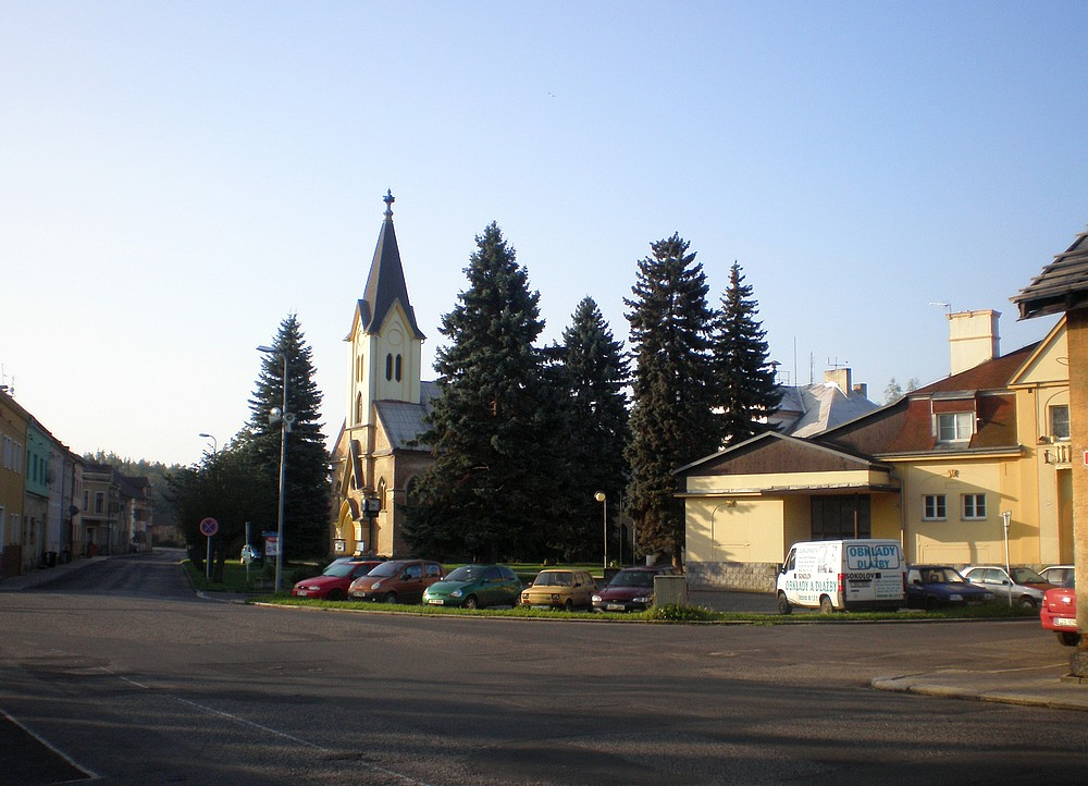 Svatava, Sokolov District, Czech Republic